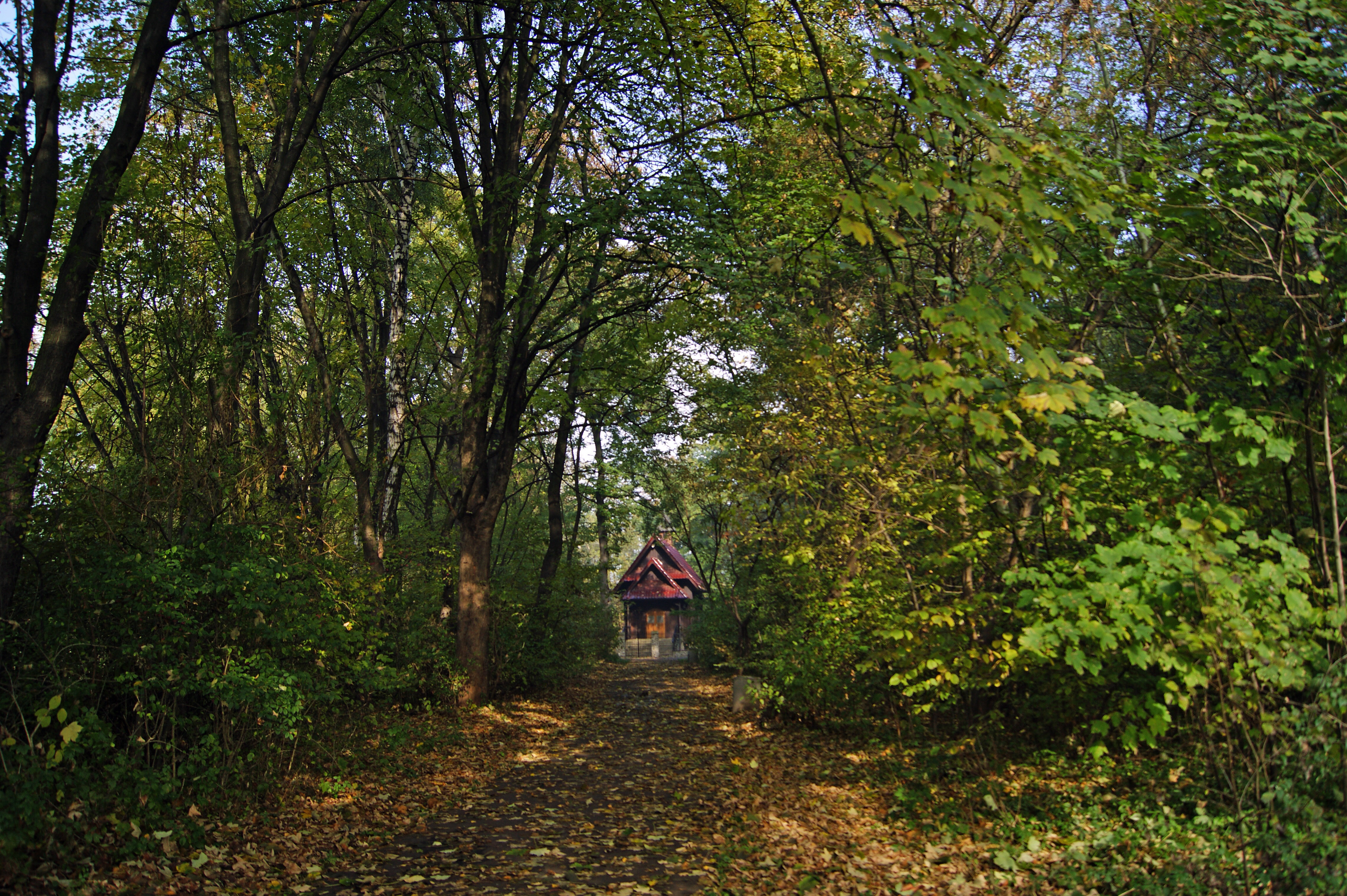 Mogila Wood, chapel, Mogila, Nowa Huta, Krakow, Poland